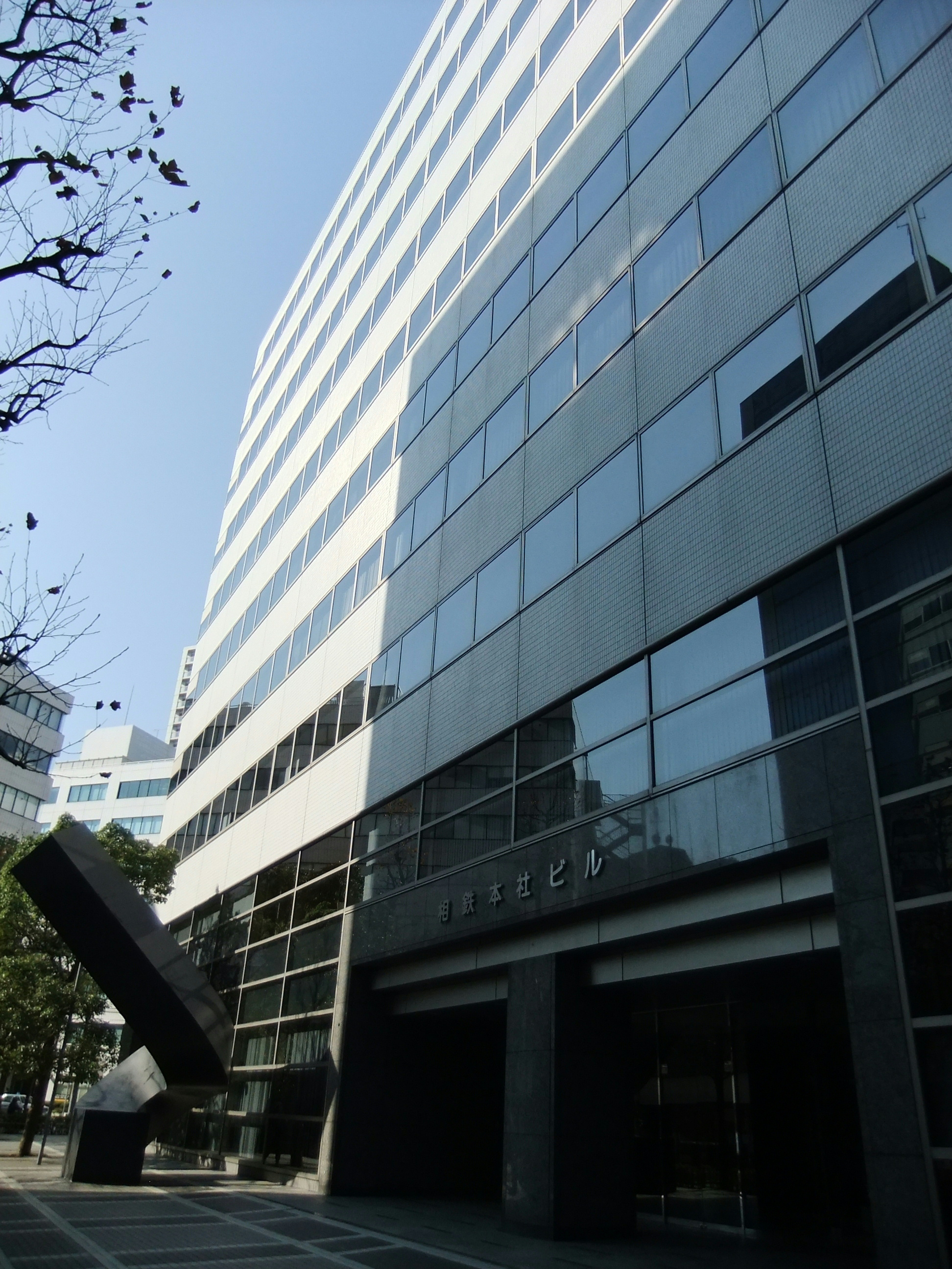 Sotetsu Holdings, Inc.(Sotetsu HQ Building)